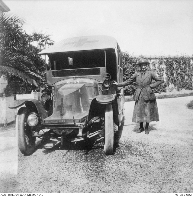 Olive May (Kelso) King standing beside the Alda Motor Ambulance which she supplied and drove for the Scottish Women's Hospitals 1915-1916.